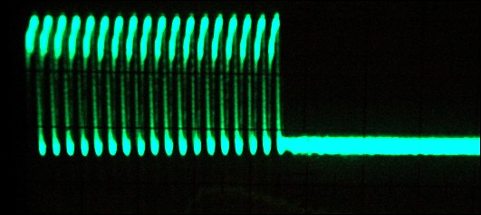 IR remote control signal, oscillator screen dump. Carrier frequency: 38 kHz (25µs per cycle). Related picture image:irmodbt.jpg Creator: Ebuss (wsrp) See: Fernbedienung